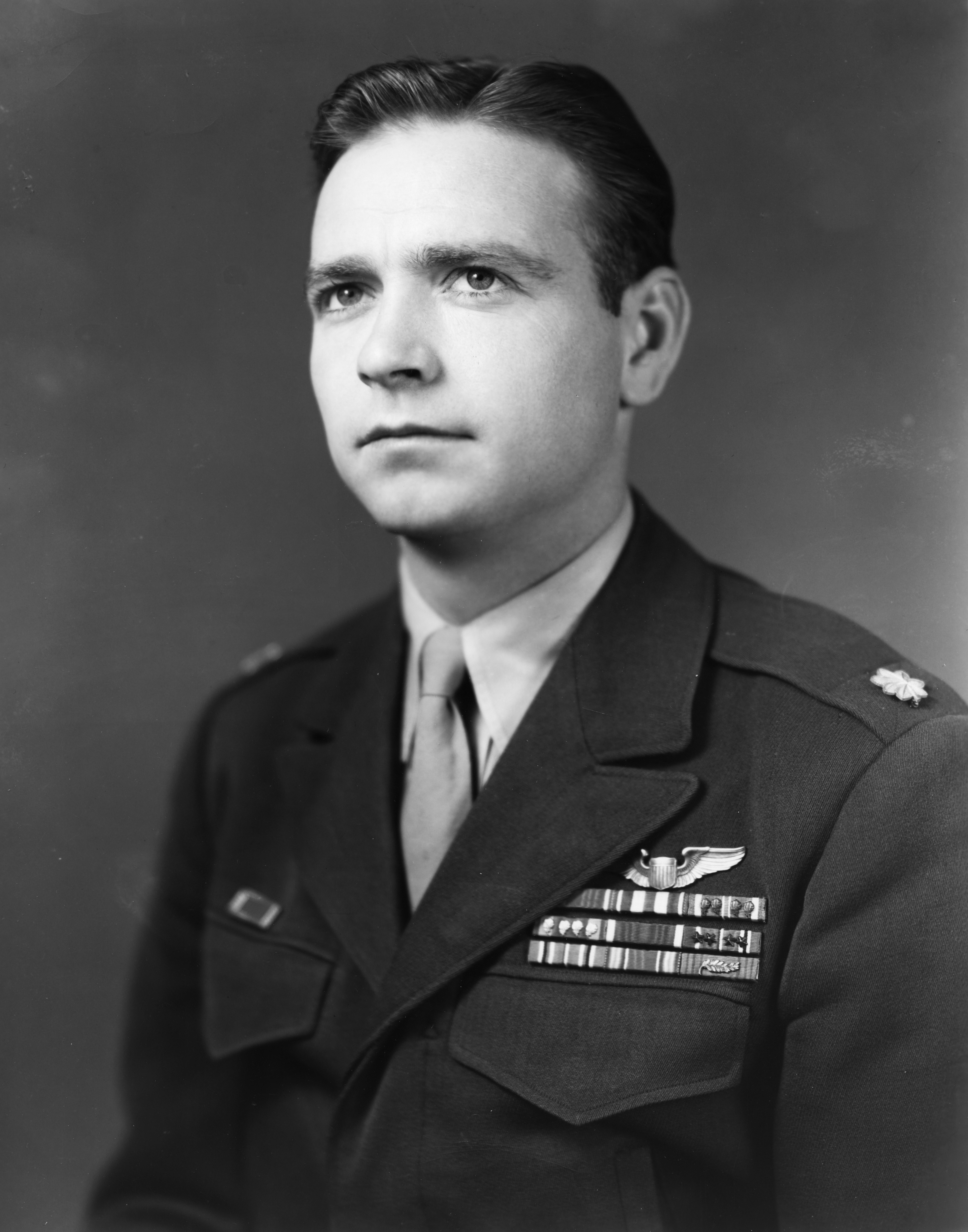 Major Henry W Brown of the 355th Fighter Group